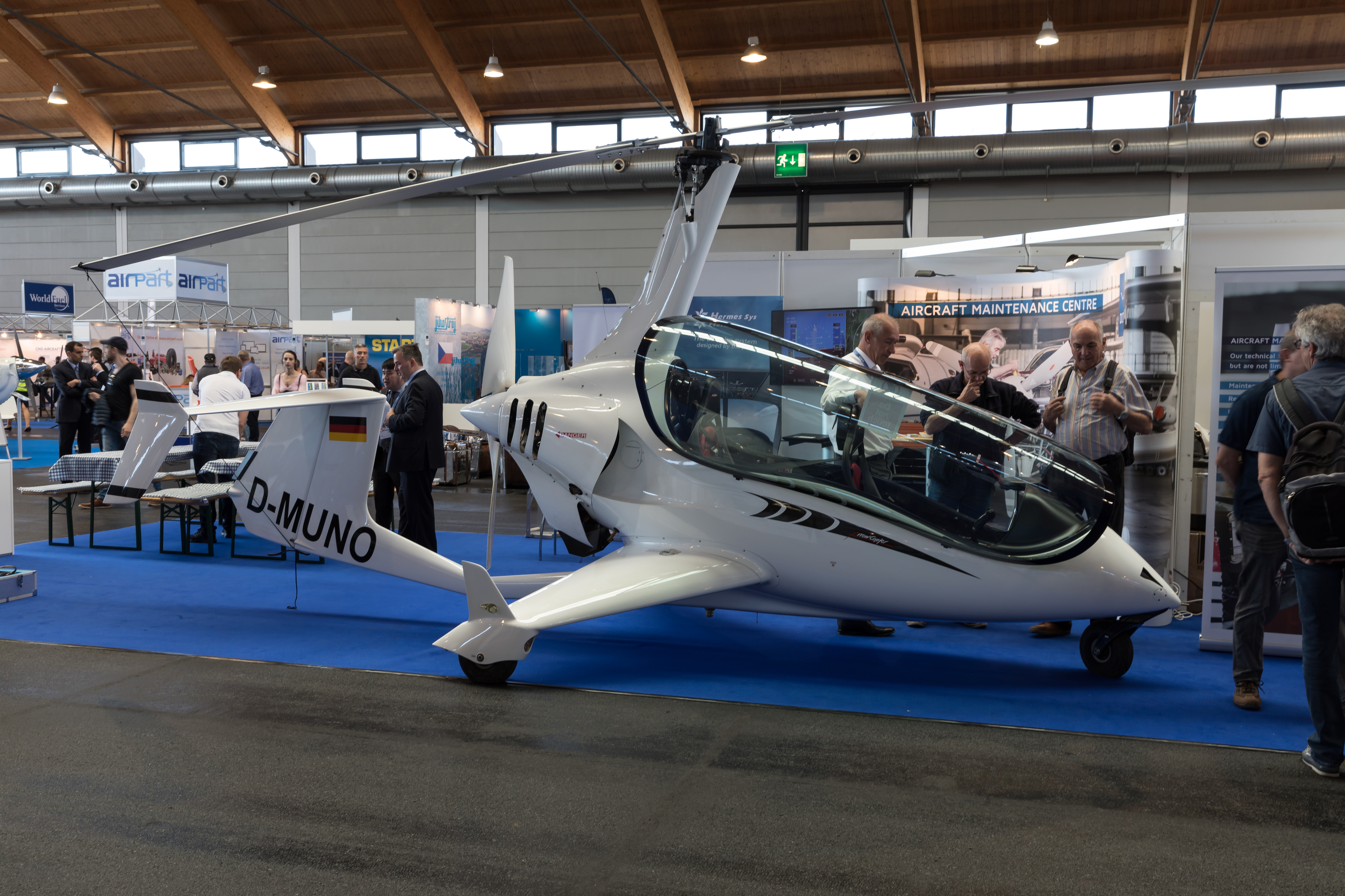 ArrowCopter AC20 at AERO Friedrichshafen 2018